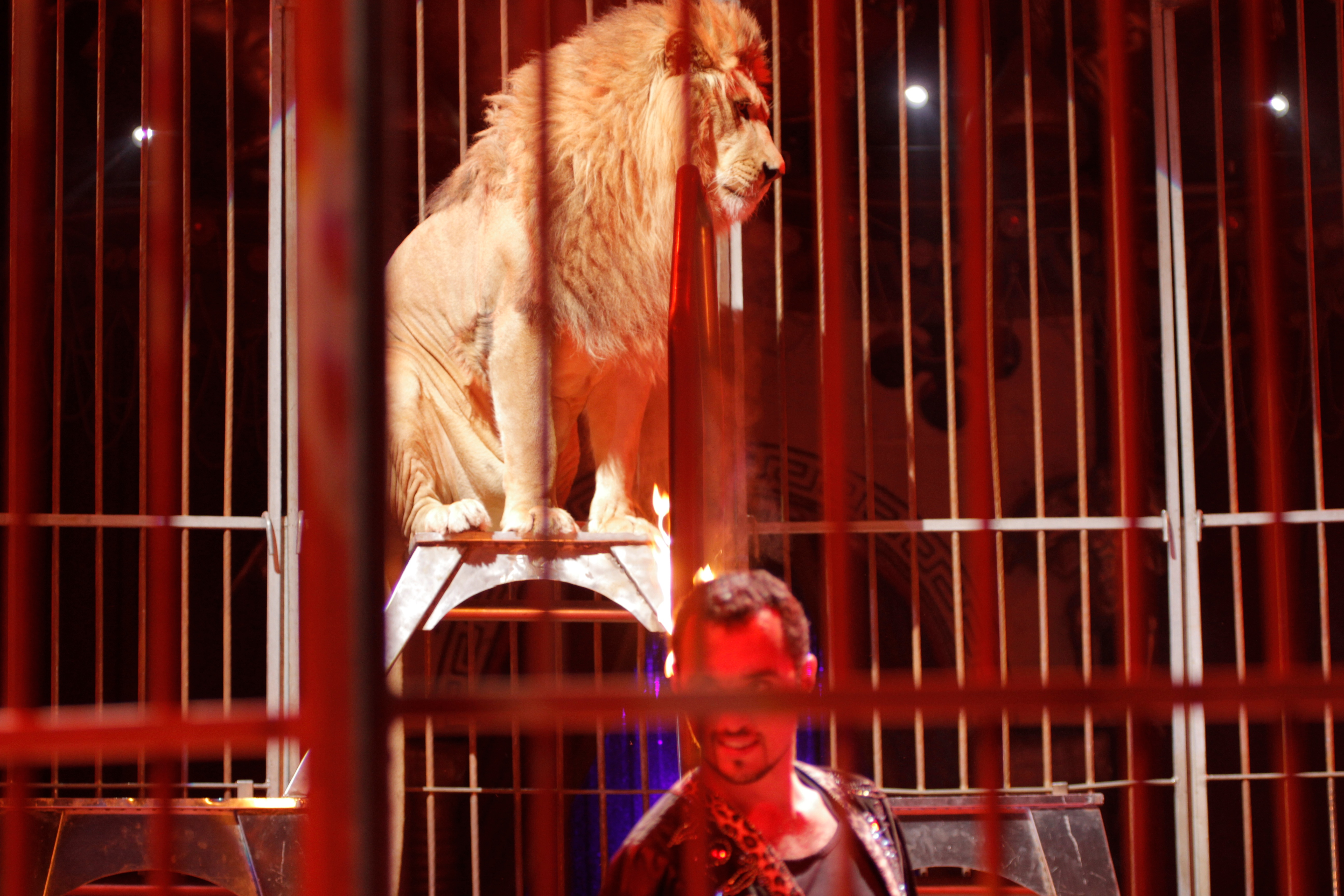 Full story: القصة l'histoire